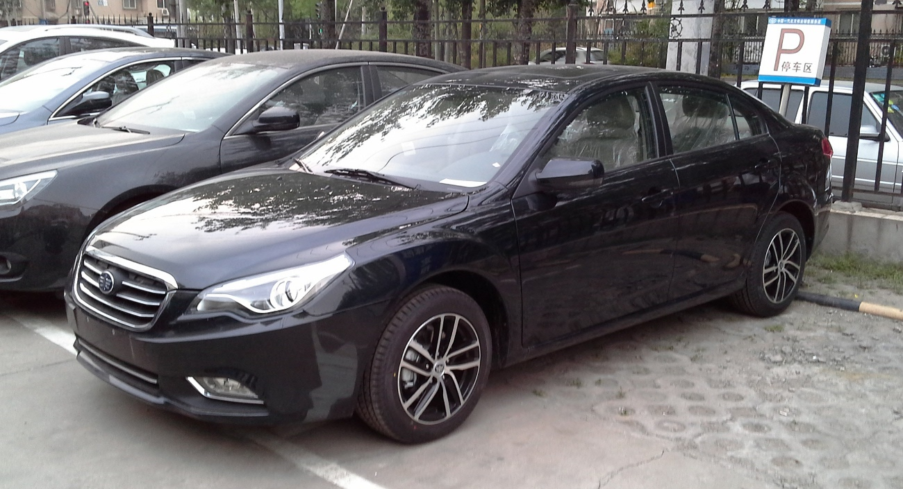 Besturn B50 facelift photographed in Beijing, China.